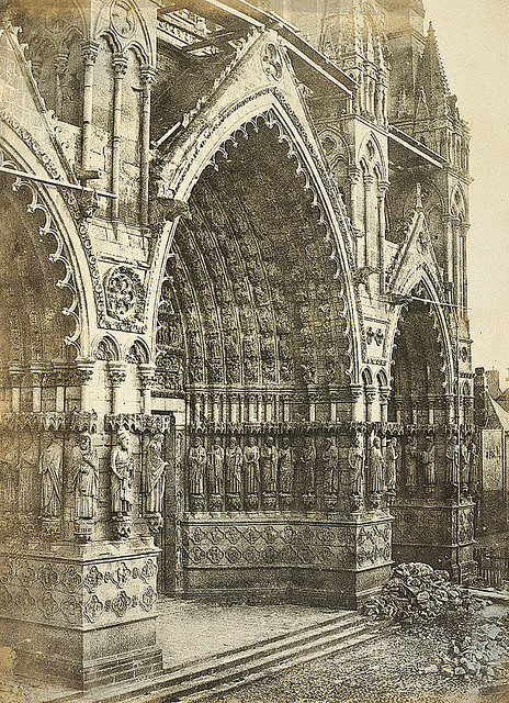 Henri le Secq about 1852 Accession no. PGP 237.24 Medium Salt print from waxed paper negative Size 35.10 x 25.50 cm Credit Purchased with the assistance of The Art Fund 1999 For more information please select here.